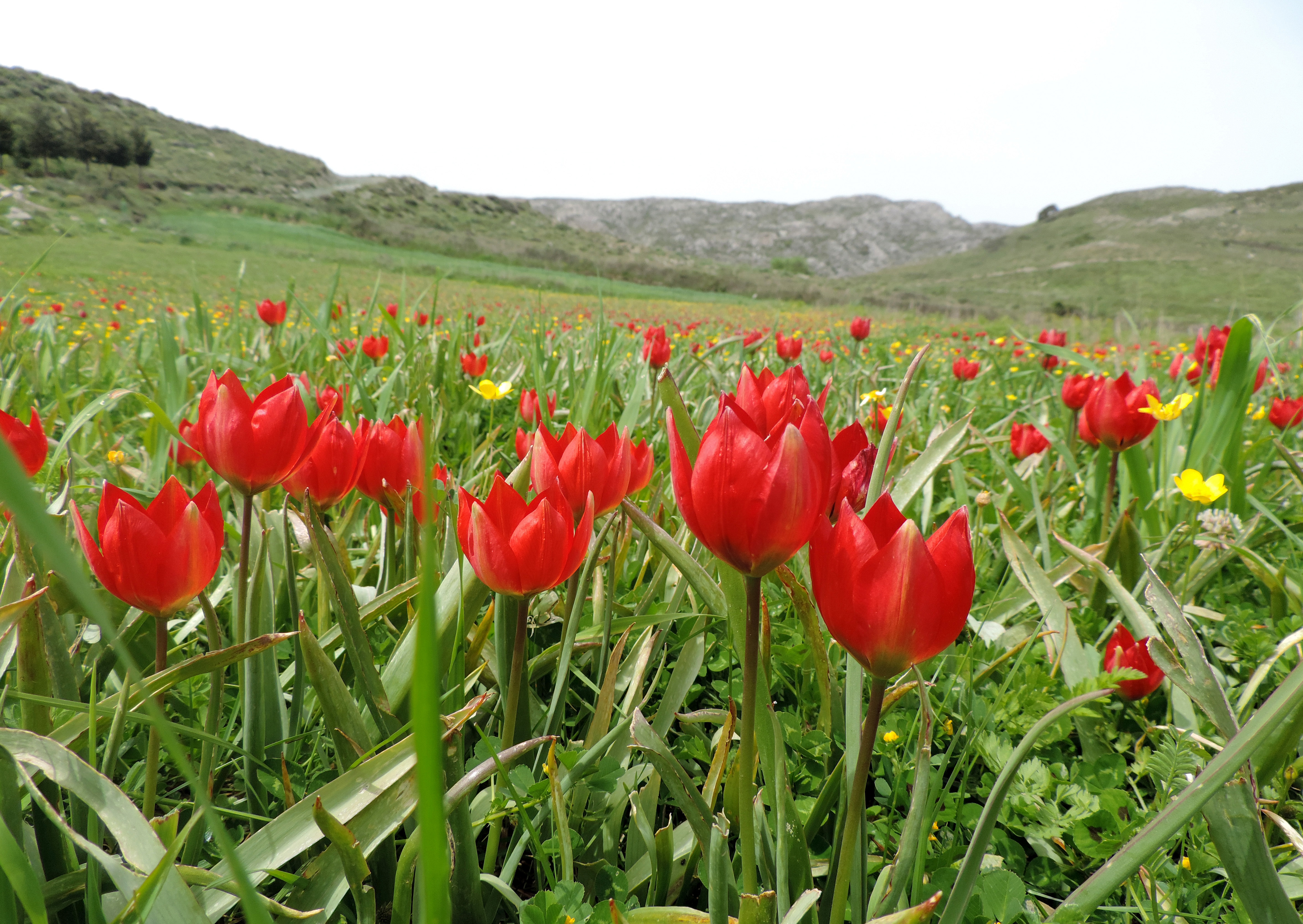 This is a photography of Natura 2000 protected area with ID GR4330002